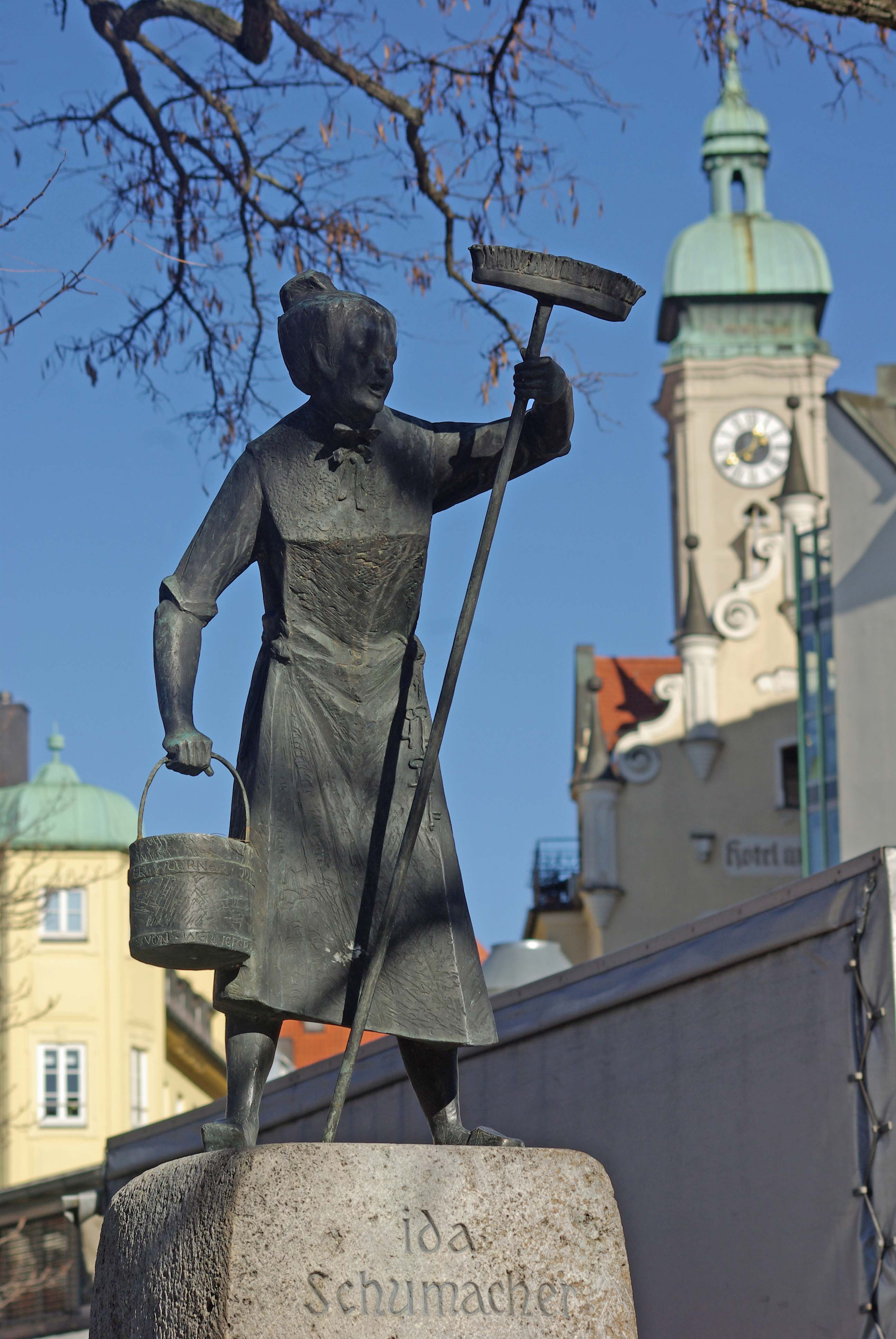 Ida-Schumacher-fountain at Munichs Viktualienmarkt created by Marlene Neubauer-Woerner